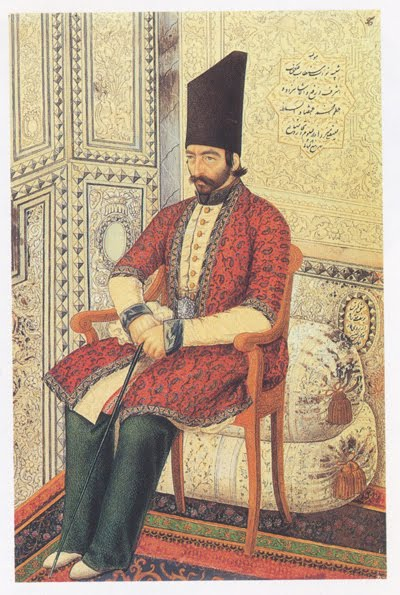 Portrait of Prince Ali Quli Mirza I'tizad al-Saltaneh